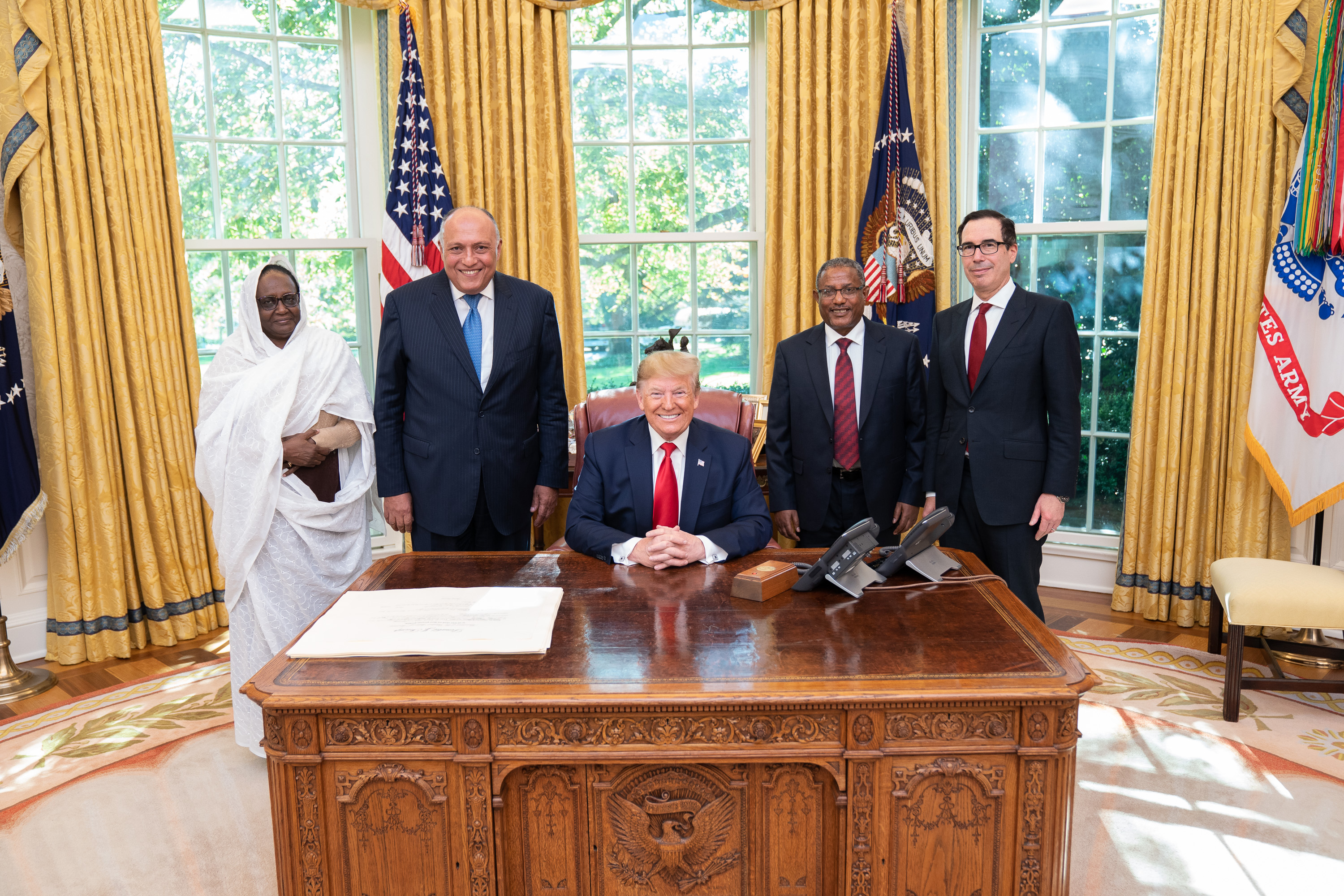 President Donald J. Trump, joined by Secretary of the Treasury Steven Mnuchin, meets with the Minister of Foreign Affairs of the Republic of Sudan Asma Mohamed Abdalla, left, the Minister of Foreign Affairs of the Republic of Egypt Sameh Shoukry, and the Minister of Foreign Affairs of the Federal Democratic Republic of Ethiopia Gedu Andargachew, in the Oval Office of the White House Wednesday, Nov. 6, 2019, where President Trump expressed his support for Egypt, Ethiopia, and Sudan’s ongoing negotiations to reach a collaborative agreement on the Grand Ethiopian Renaissance Dam. (Official White House Photo by Shealah Craighead)